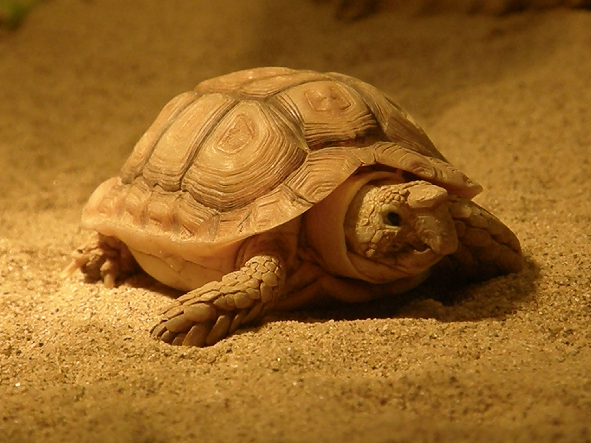 Homopus areolatus - Parrot beaked tortoise (Common padloper) only 4 animals are found in a ISIS-registrated zoo. San diego zoo and Wuppertal zoo. I'm afraid that Wuppertal has 2 males.